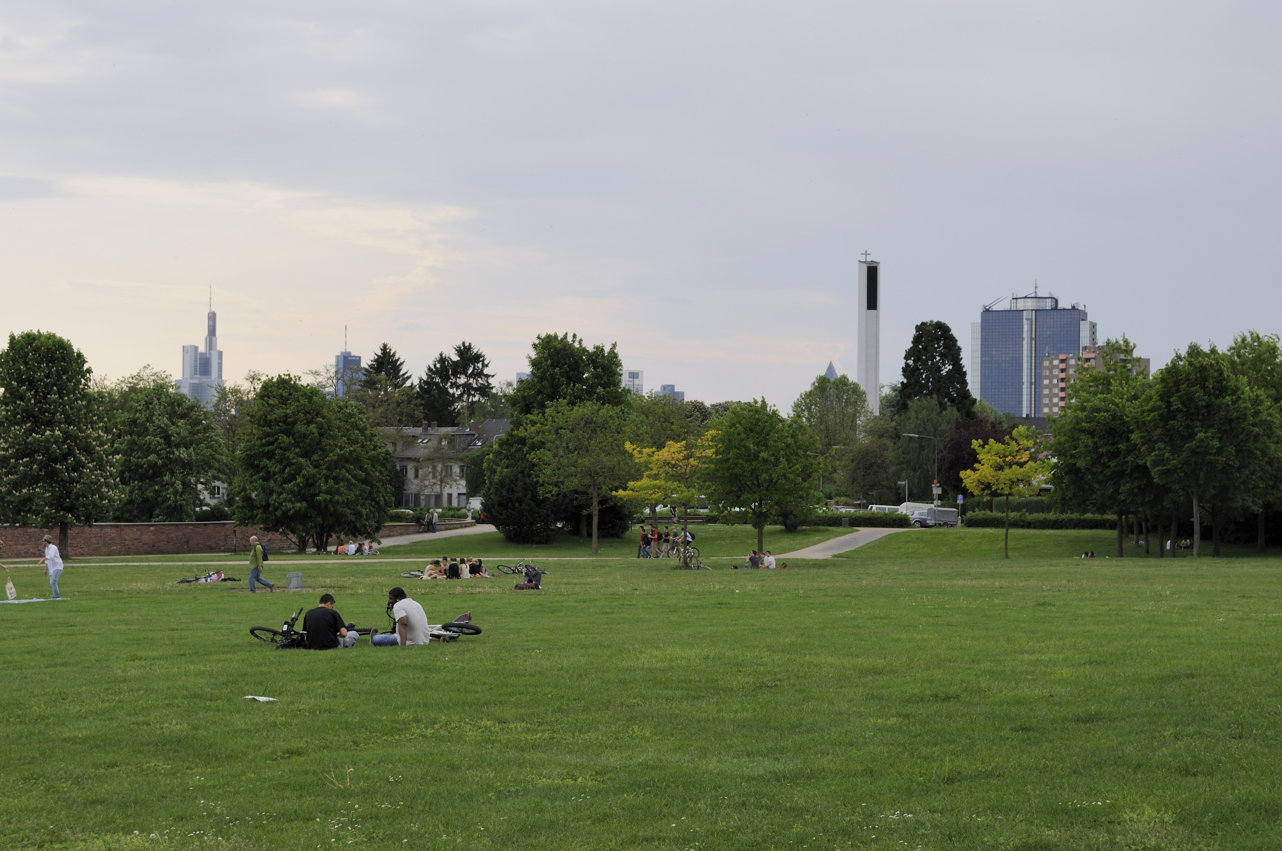 Günthersburgpark.